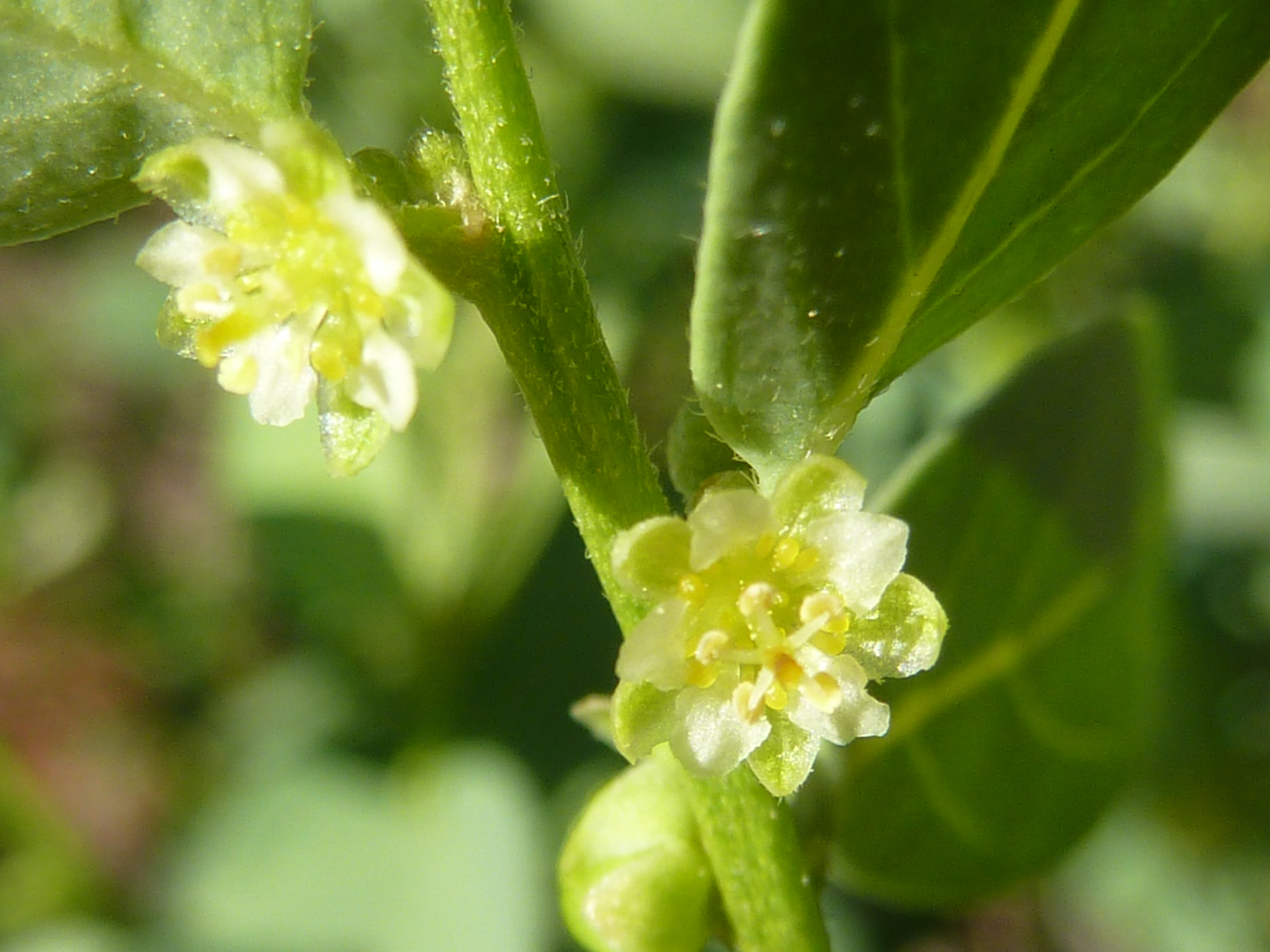 Flowers of a Lightning bush on a kopje at Seringveld near Pretoria, South Africa